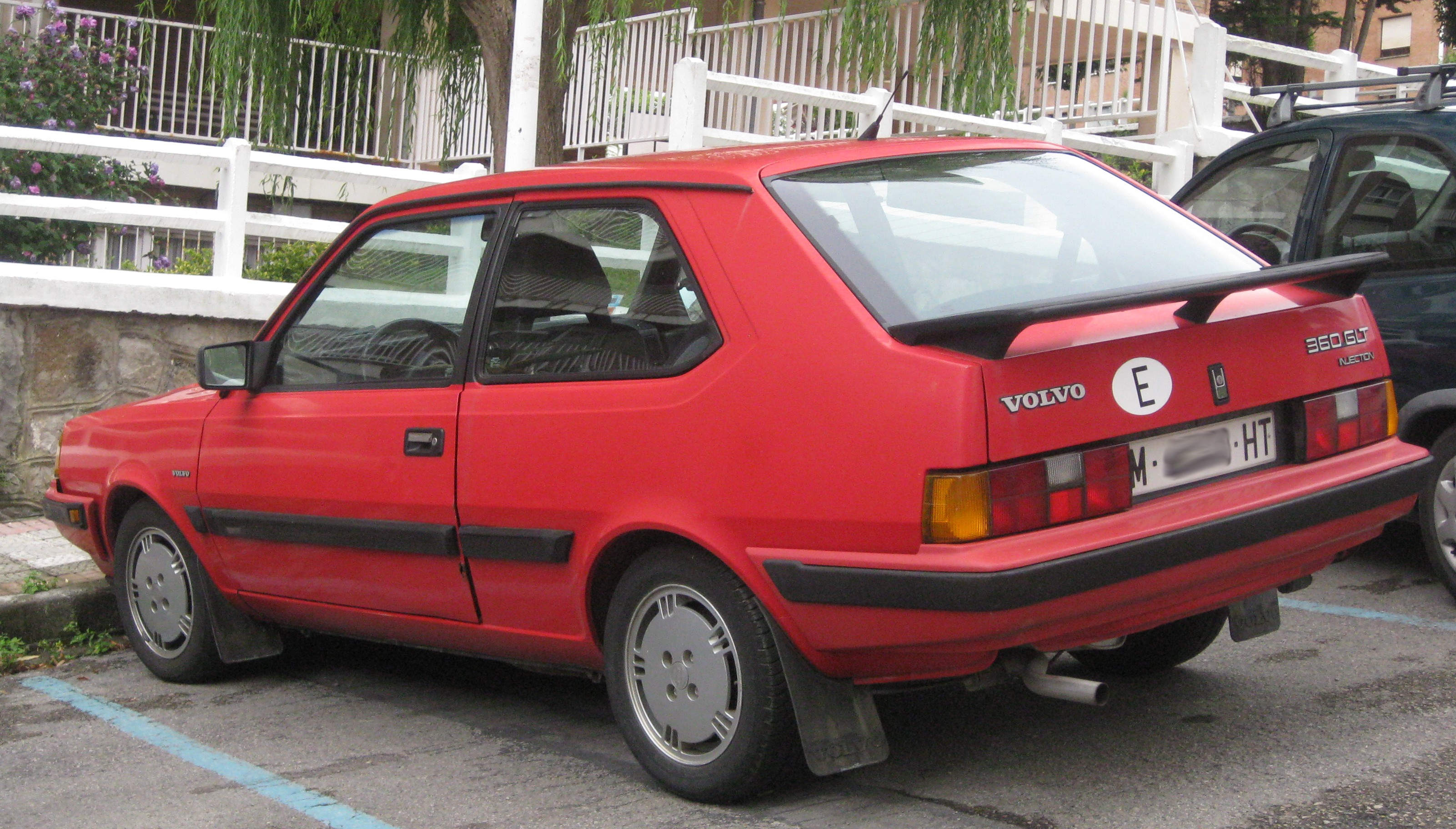 This car is getting rarer today but this sportier version even more, very nice with this color, it apparently had 115 HP, good for a car this size. It had a 1987 from Madrid and was spotted in Castro-Urdiales (Cantabria).